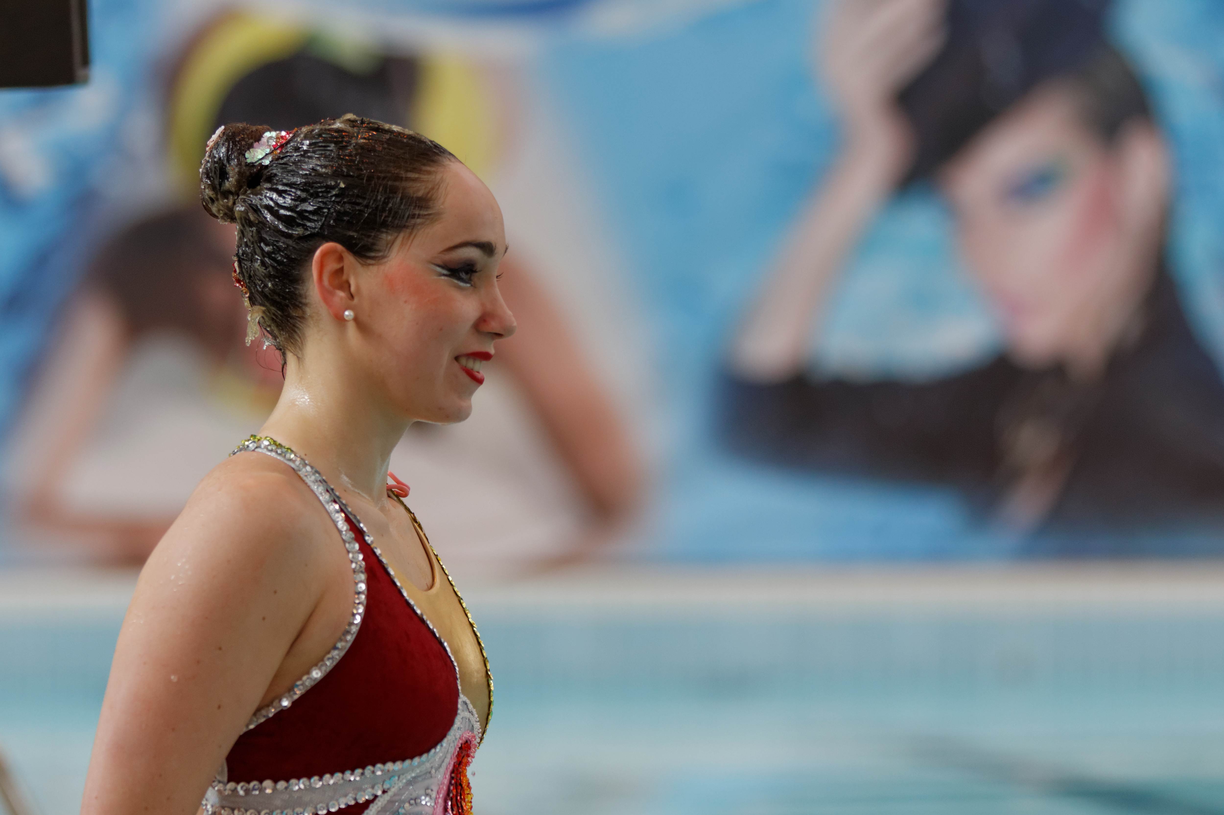 The French synchronized swimmer Camille Guerre (outside competition) during the free solo routine at the French Open in Montreuil, March 16, 2013.